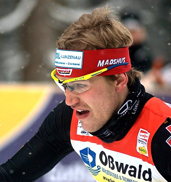 Tom Reichelt at the Tour de Ski 2010 in Oberhof